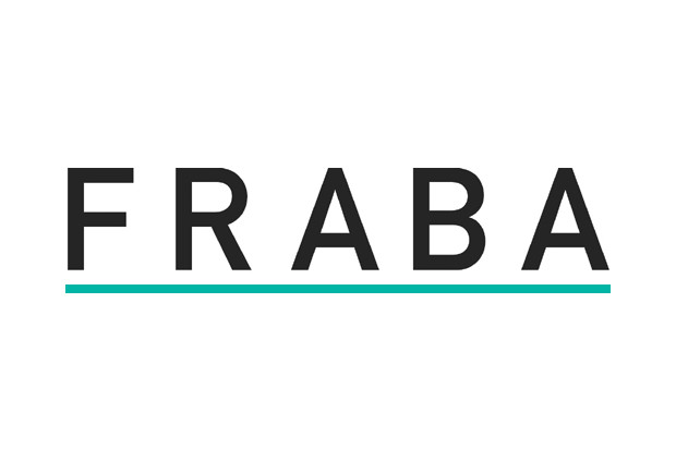 The comapany logo of The FRABA Group